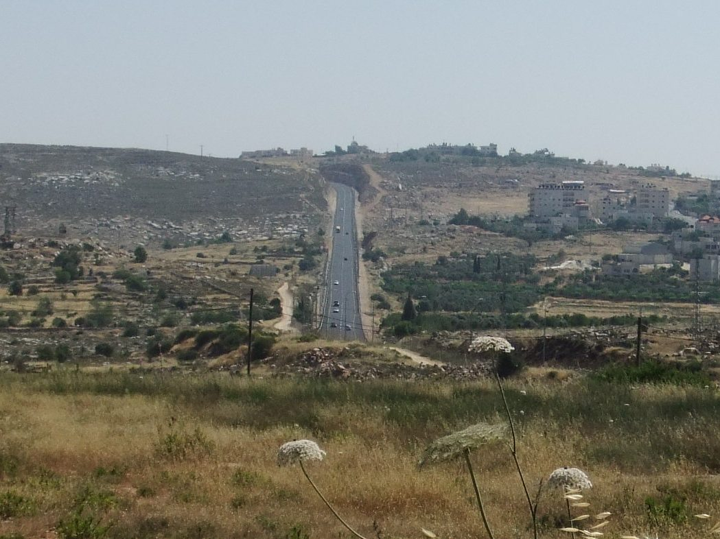 Road 60 viewed from the north. On the right is Ein Yabrud, on the left Tal Binyamin.